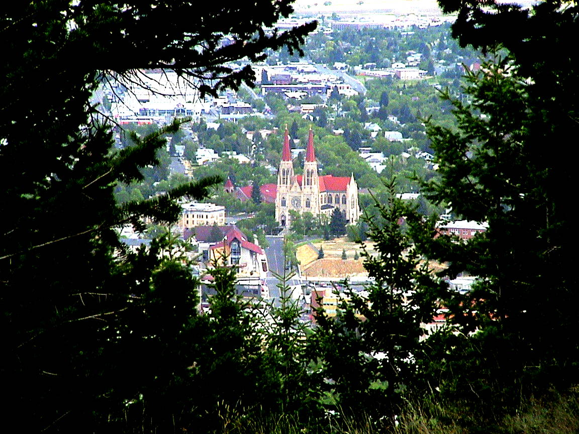 View of Helena Cathedral from Mount Helena (Helena, Montana, U.S.) on August 22, 2003.